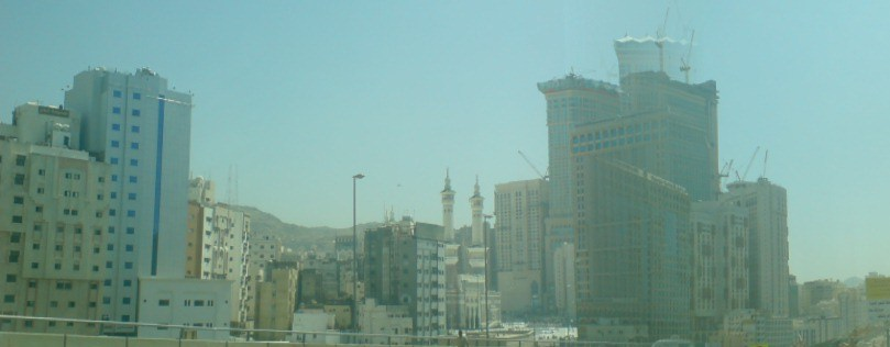 A Skyline Image of Mecca